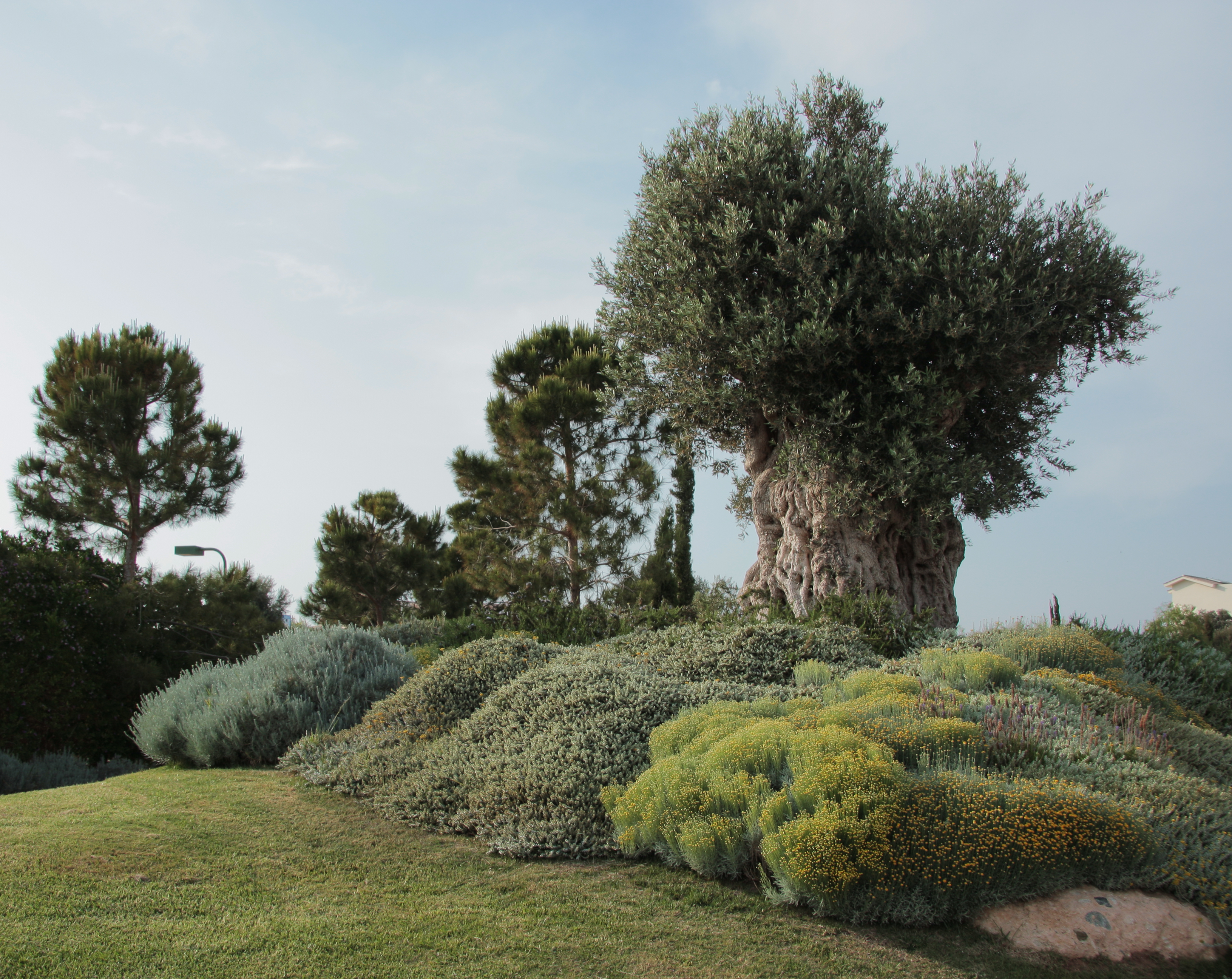 Olea europaea, Aphrodite Hills, Cyprus